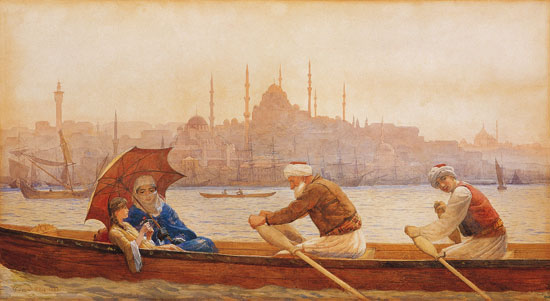 Excursion on the Golden Horn; watercolour and tempera on cardboard, 39.5 x 72 cm.